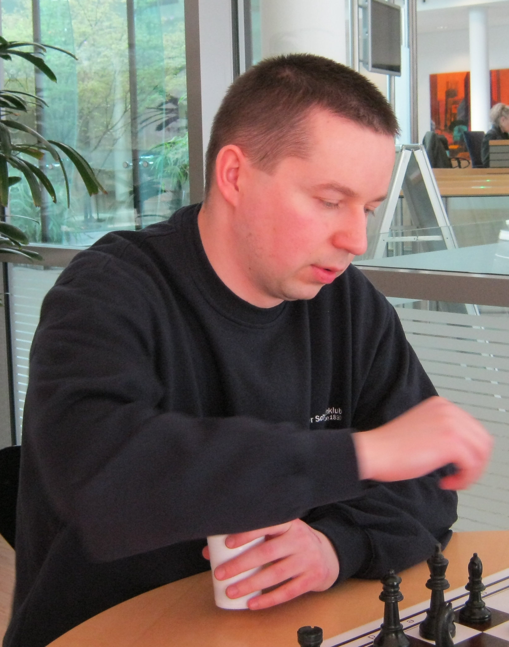 Robert Kempiński , chess grandmaster from Poland